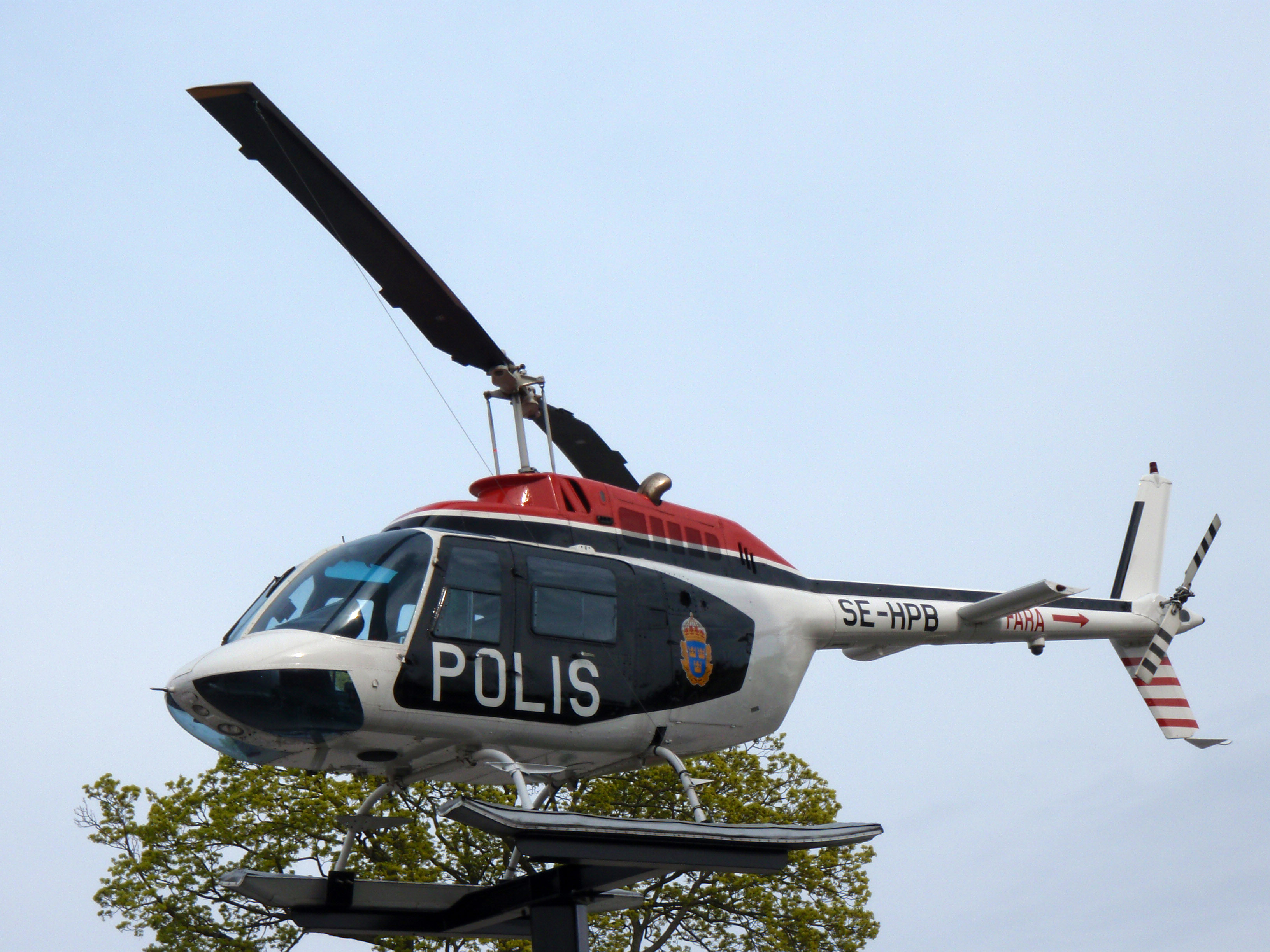 Bell 206 Police helicopter (SE-HPB) near Swedish National Museum of Science and Technology in Stockholm.